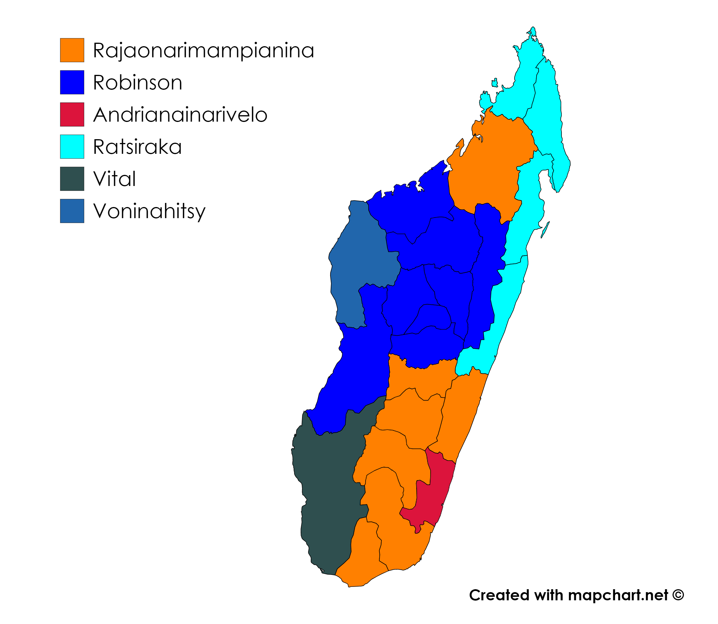 First place candidate on first round per malagasy region in the 2013 presidential election.